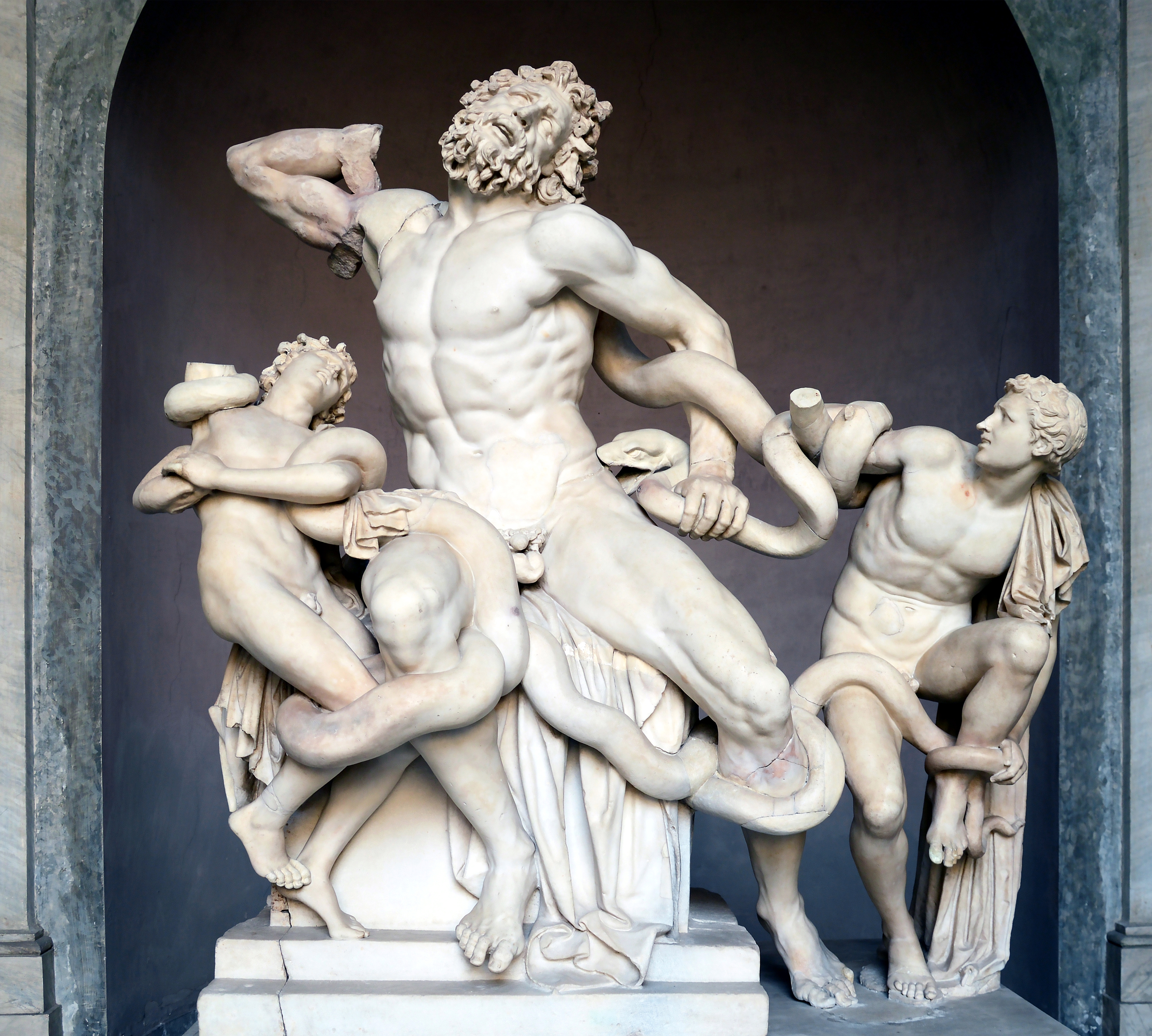 Laocoön and his sons, also known as the Laocoön Group. Marble, copy after an Hellenistic original from ca. 200 BC. Found in the Baths of Trajan, 1506.